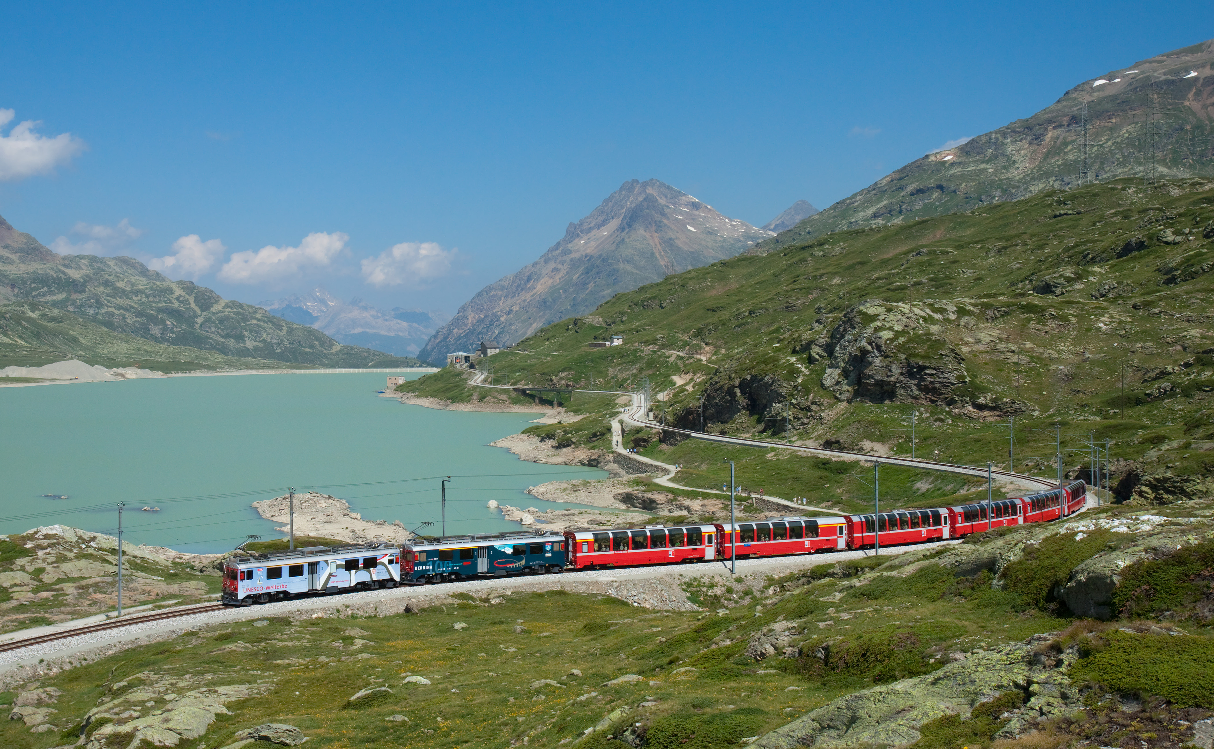 Two RhB ABe 4/4III multiple units with a Bernina Express train on the Bernina line, passing Lago Bianco.